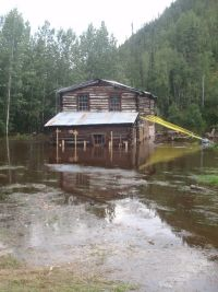 The Steele Creek Roadhouse in central eastern Alaska, standing in floodwaters. Photo was taken by a BLM work crew member there to help stabilize the structure.